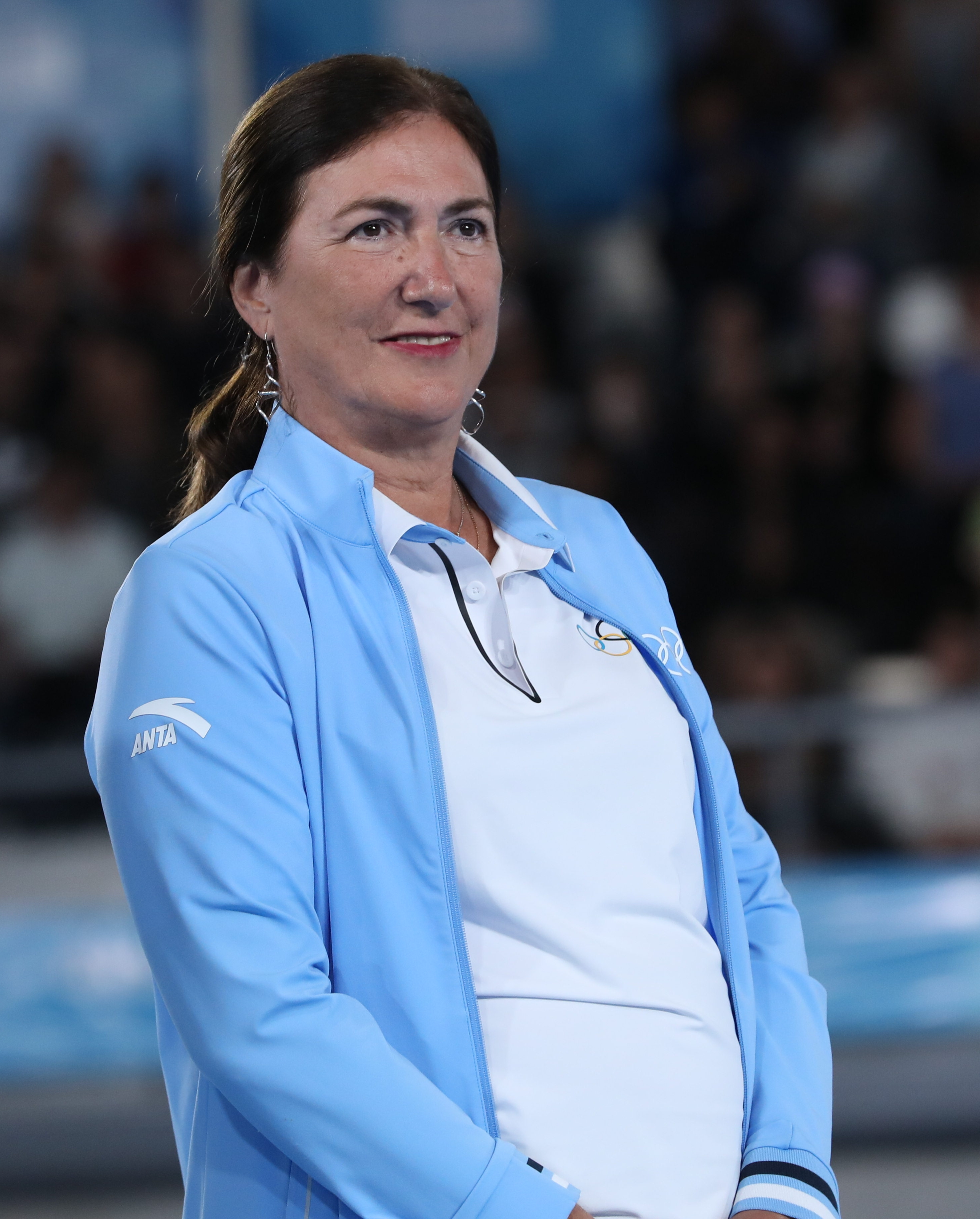 Boys' Artistic Gymnastics, Horizontal bar: Victory ceremony